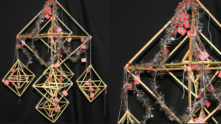 A straw decoration from the western part of Norway. This kind of decoration is also known from Finland and some of the Baltic countries